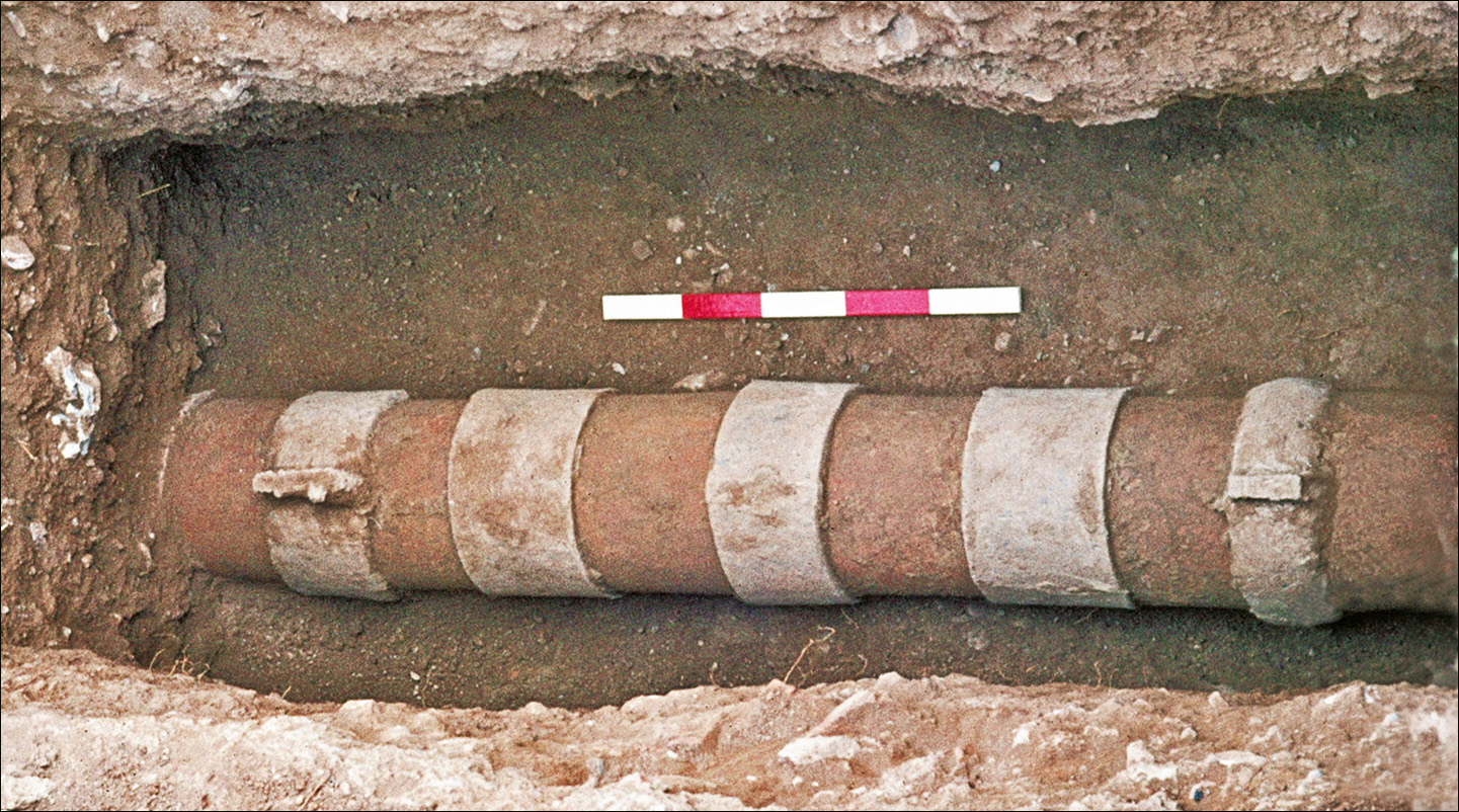 Eretria. Part of the piping with the junctions.